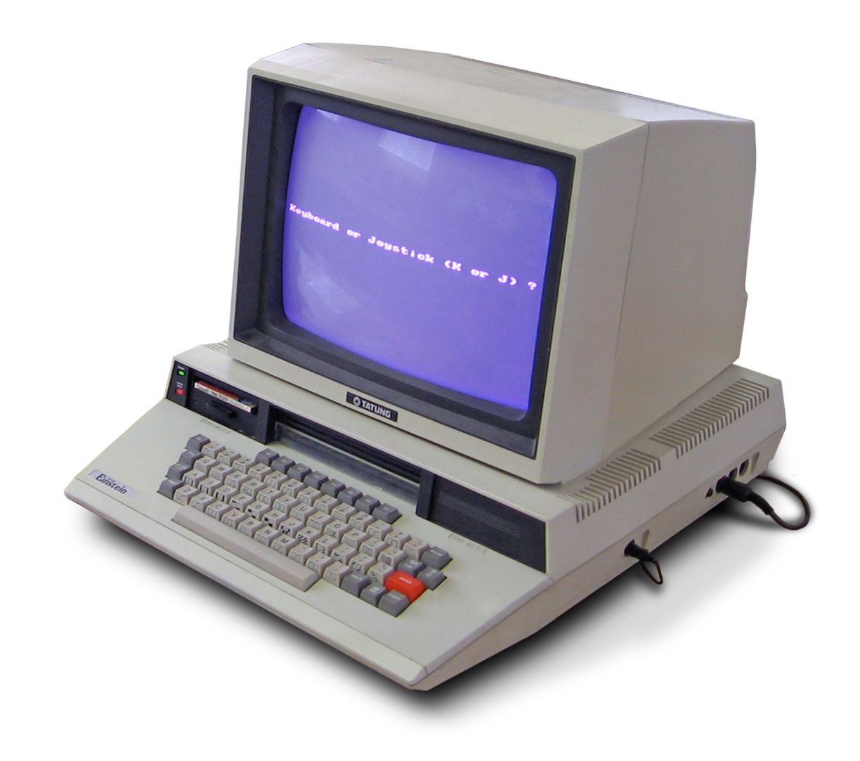 Tatung Einstein computer (synthetic shadow and transparent background)